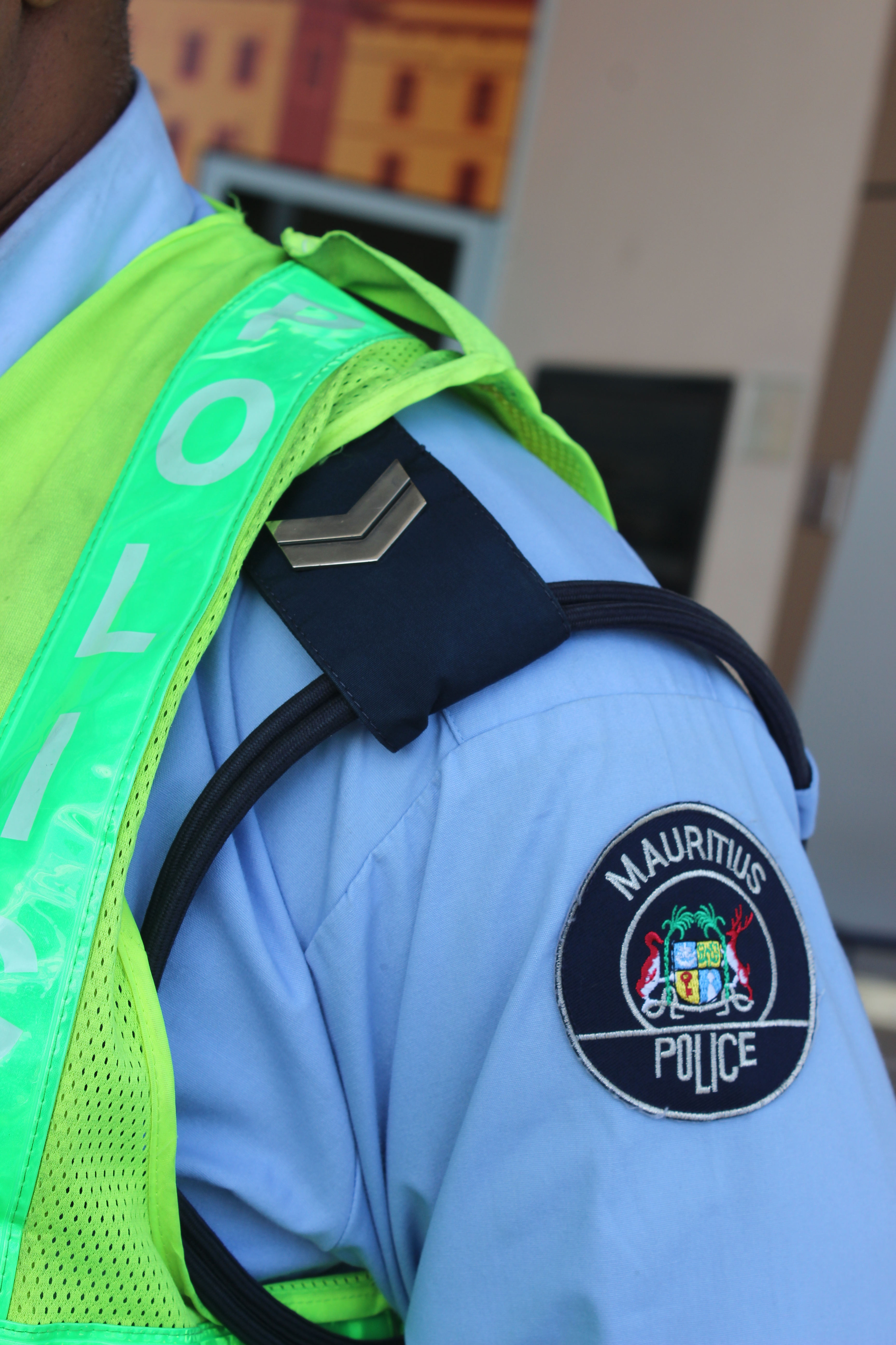 Police officers in Mauritius